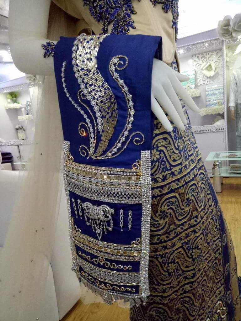 Myo Min Soe's diamond scarf.